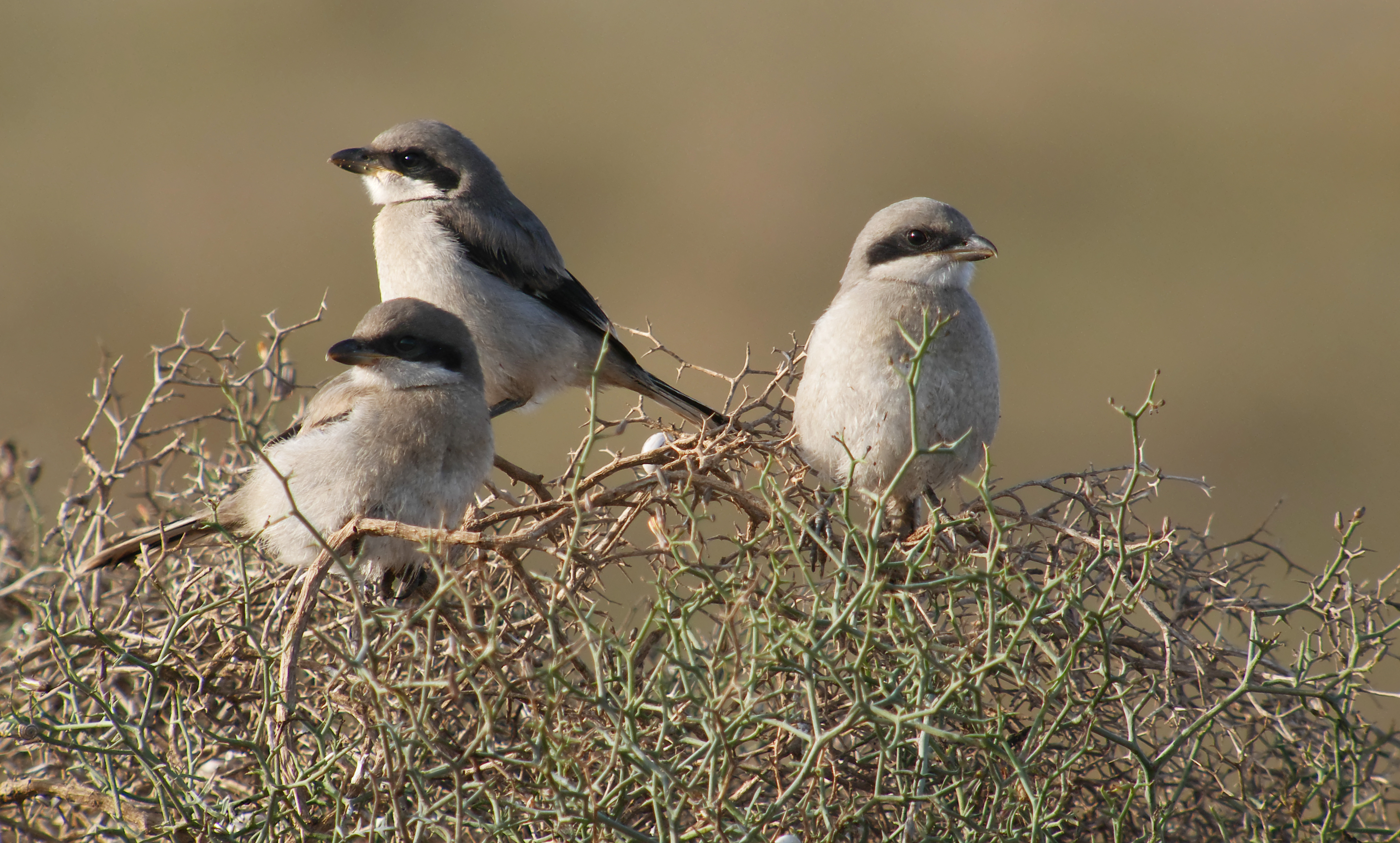 Digiscoping with Swarovski ATM 80 HD 30 X, Panasonic GX7 + Lumix G 20mm F1.7 ASPH lens (Adapter DCB)